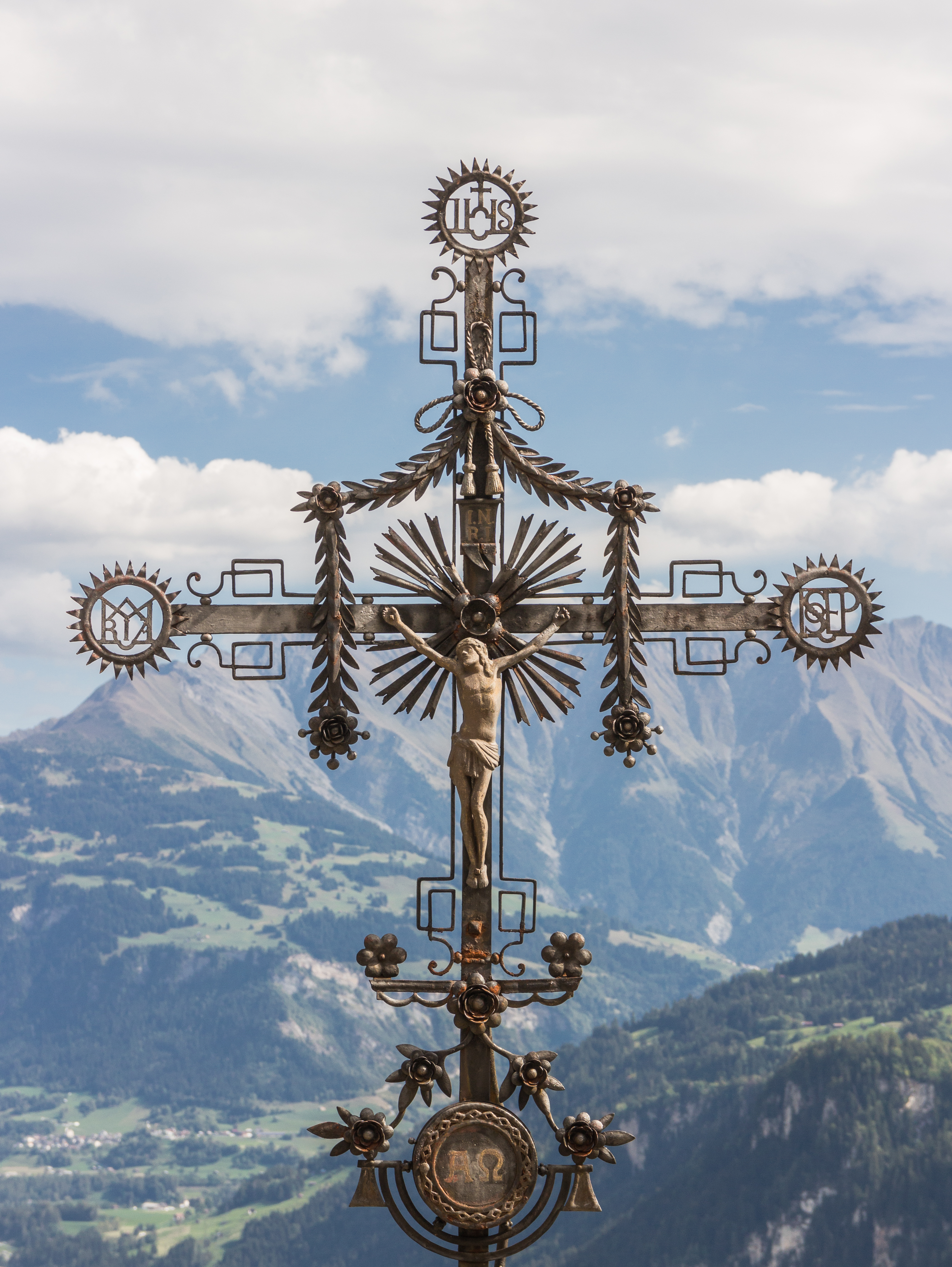 Katholische Pfarrkirche St. Julitta und Quiricus, Andiast Crucifix in the churchyard next to the church.